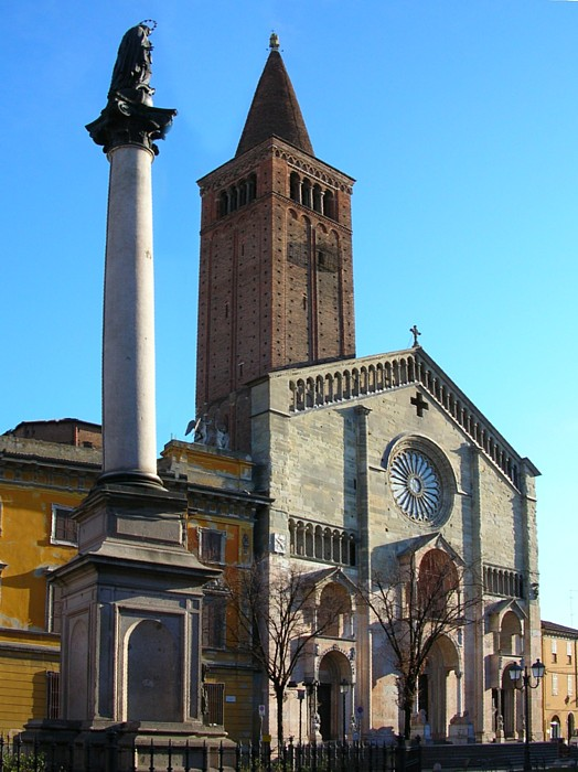 The romanesque-style facade of the Duomo (cathedral) of Piacenza, in Italy.